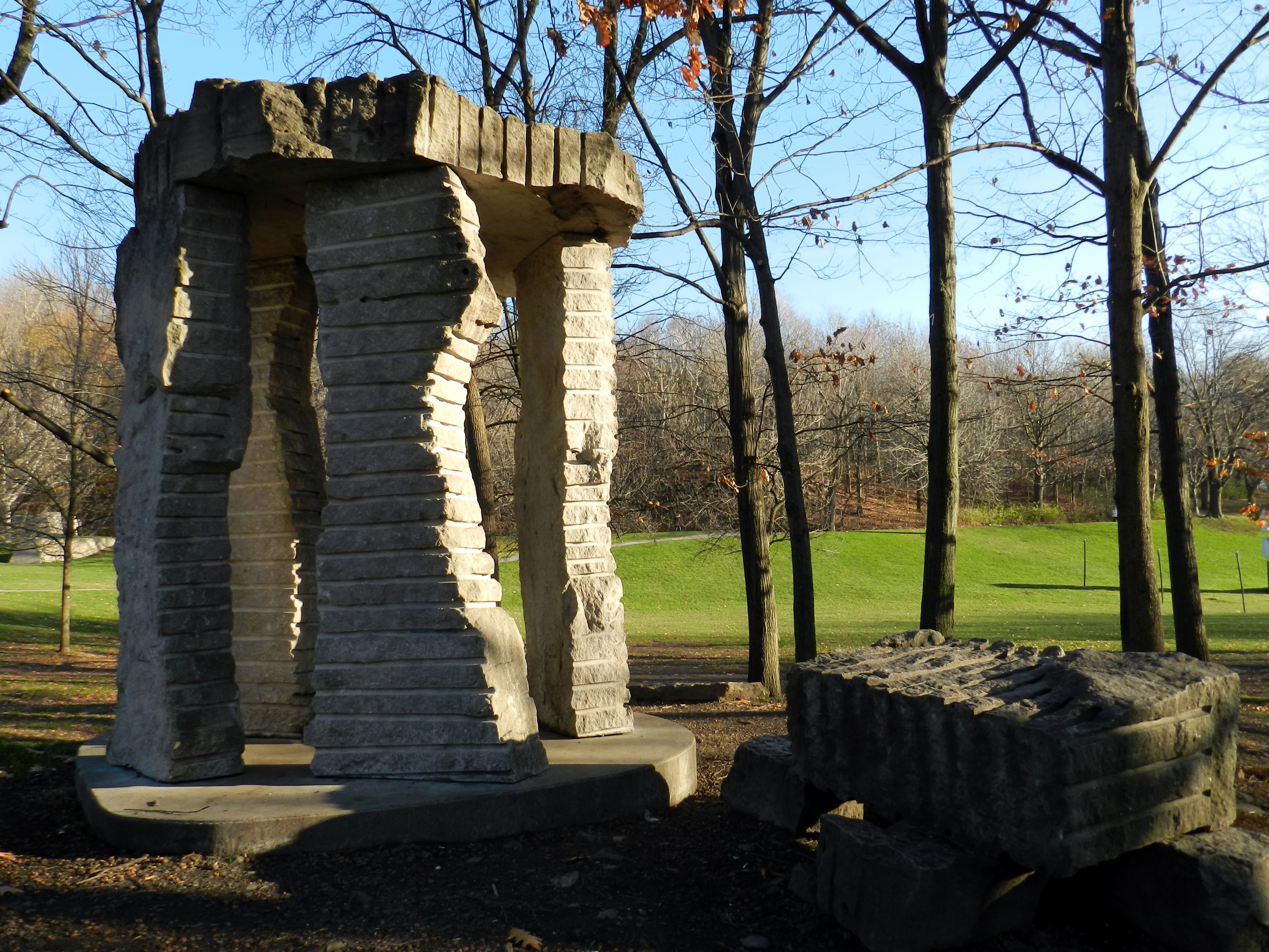 Sculpture in Mont-Royal Park at Montreal